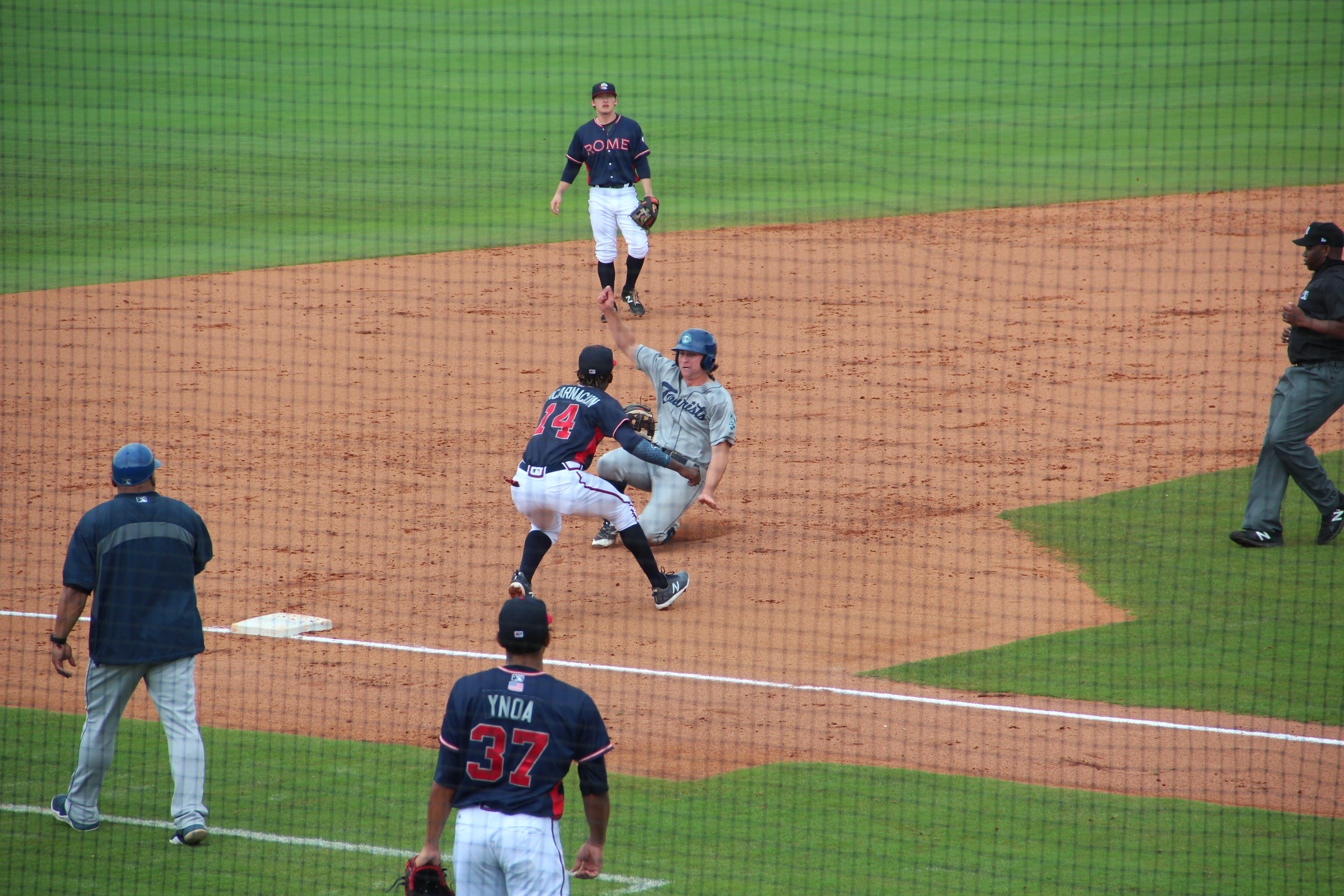 Rome Braves vs. Asheville Tourists, May 30, 2018